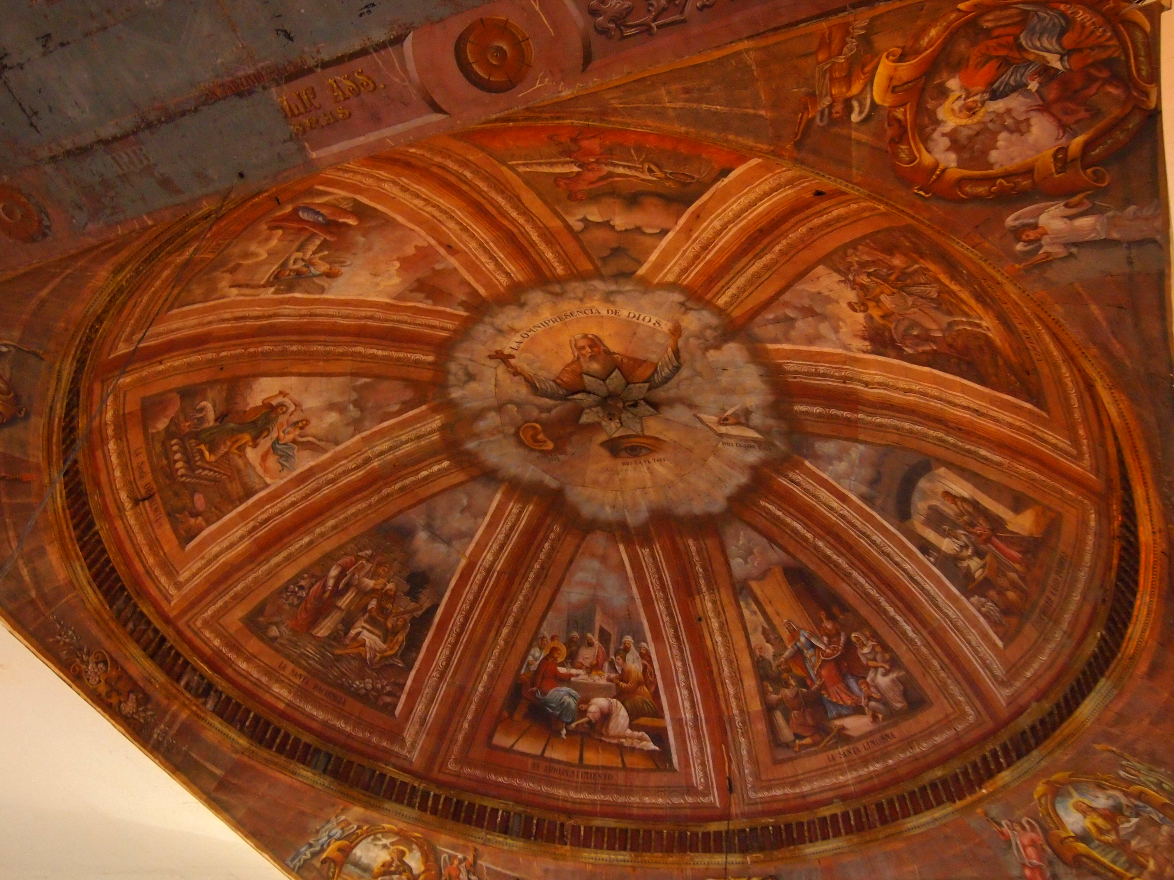 Work by Cebuano painter Rey Francia, his signature appears on the right of the circular painting at the bottom.